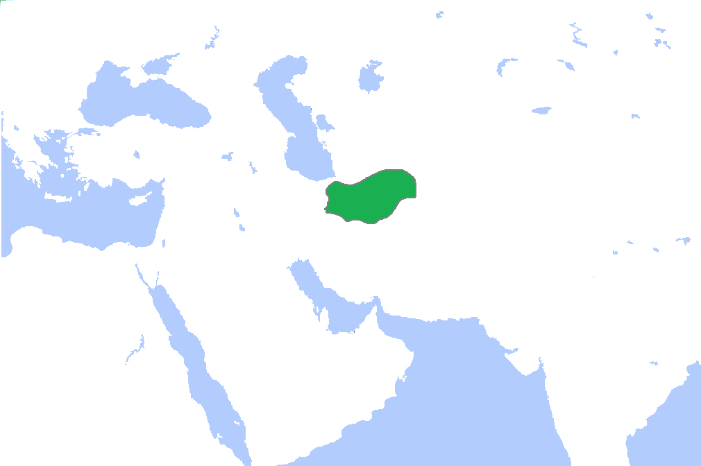 A map of the Sarbadars @ 1345 AD